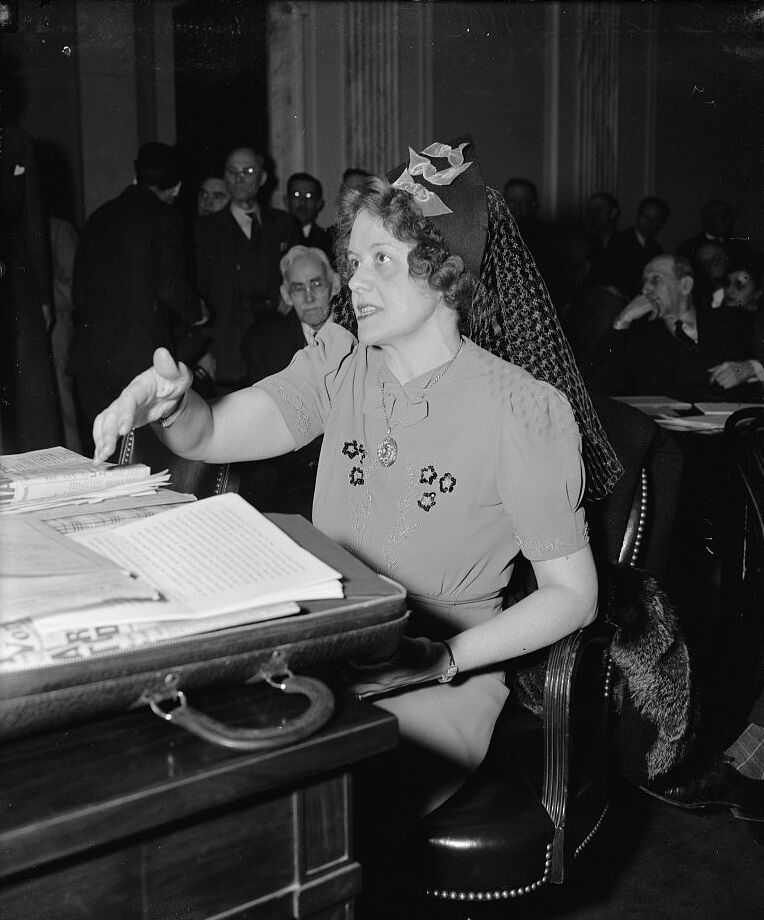 Photograph of Elizabeth Dilling (1894-1966); cropped by uploader.